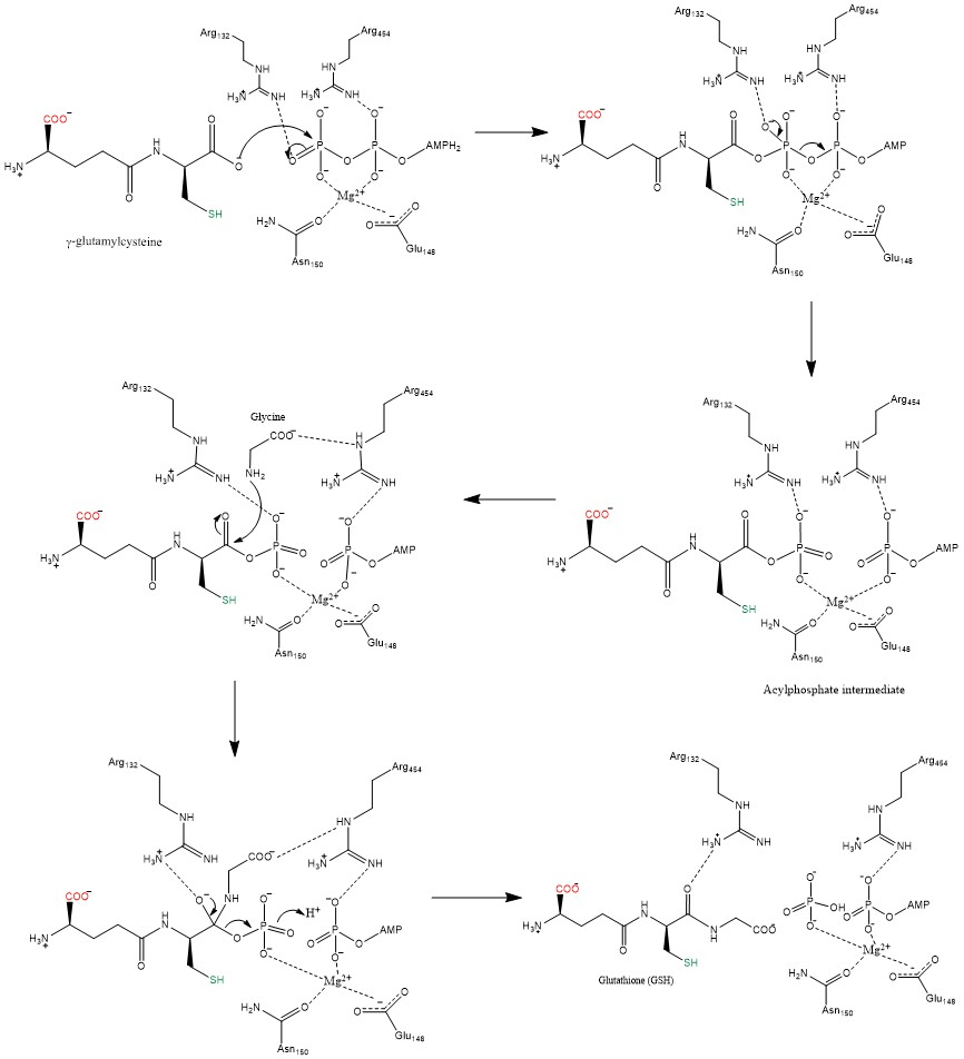 Reaction mechanism for synthesis of GSH